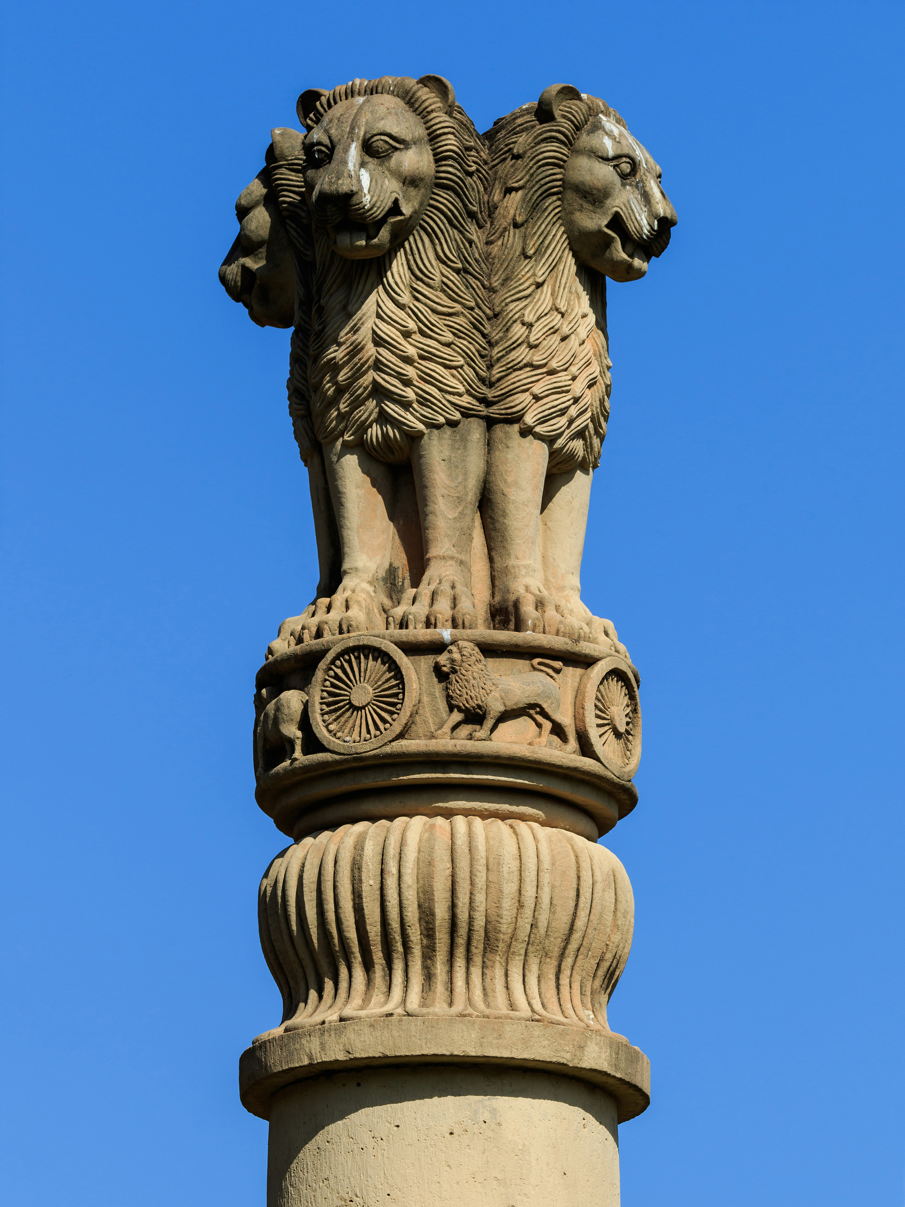 Kamla Nehru Park on Malabar Hill in Mumbai, India.